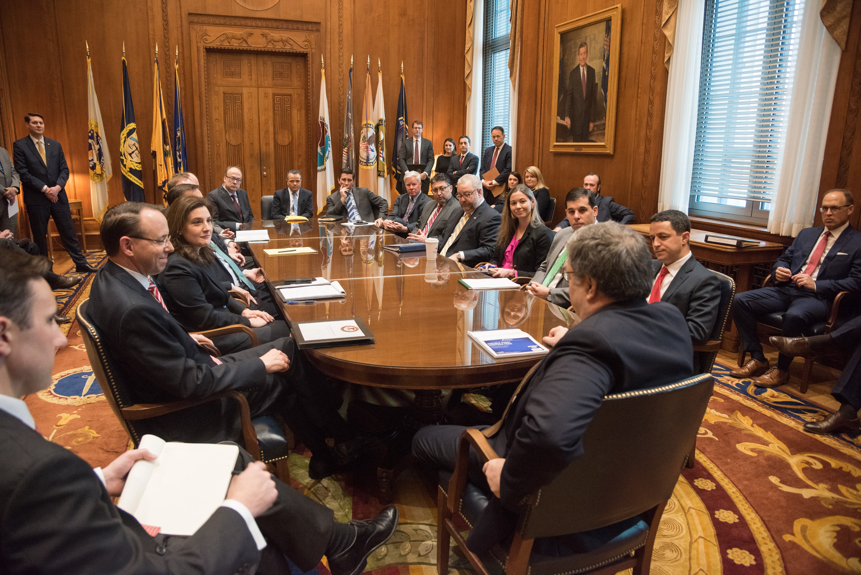 William Barr meets with the Justice Department leadership